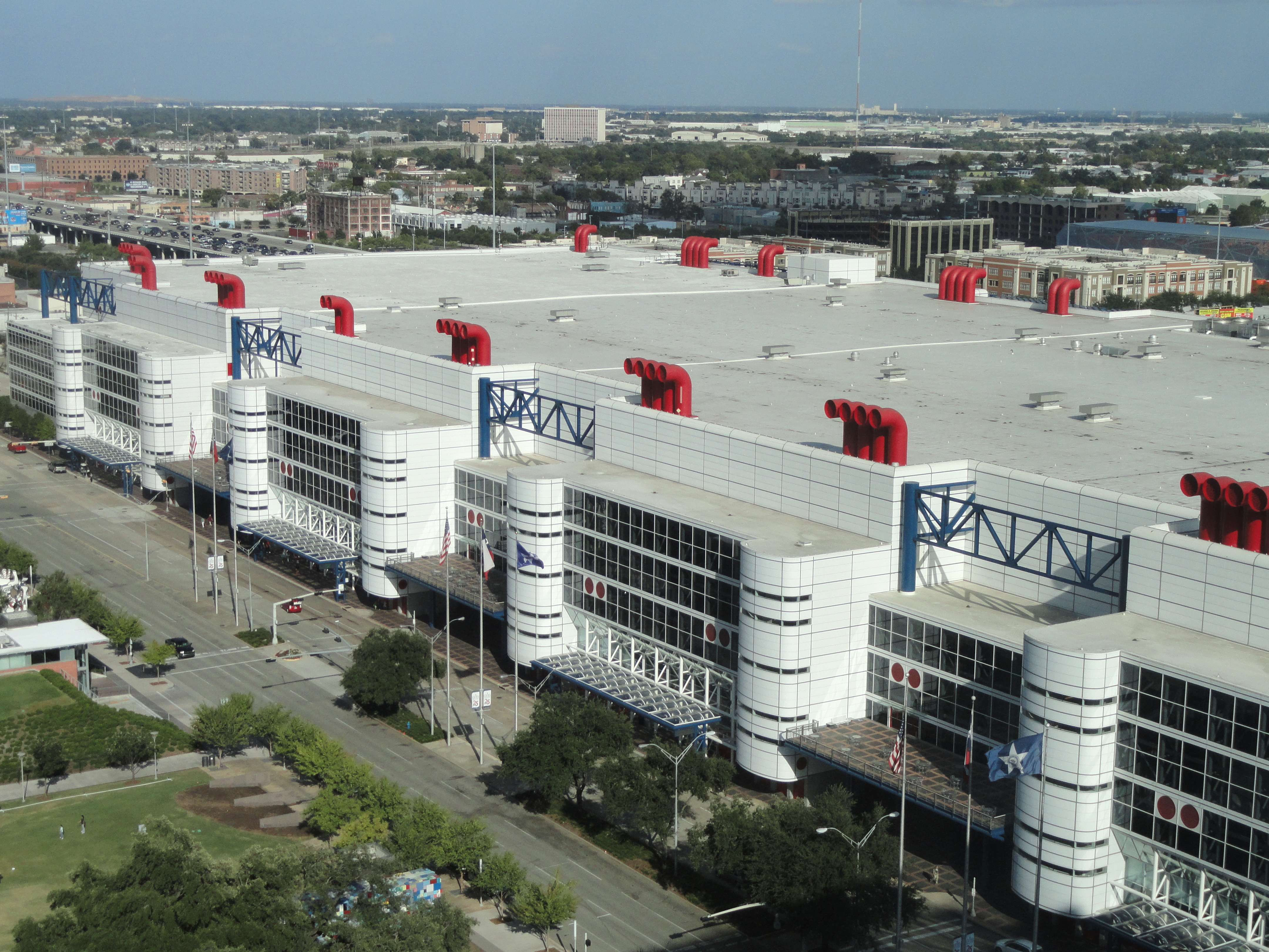 George R. Brown Convention Center, Houston, Texas, USA.